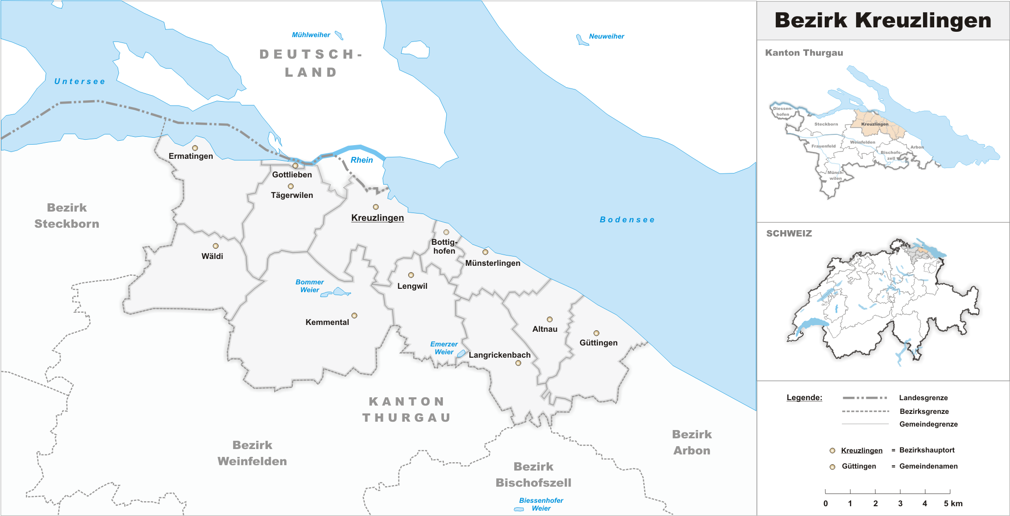 Municipalities in the district of Kreuzlingen